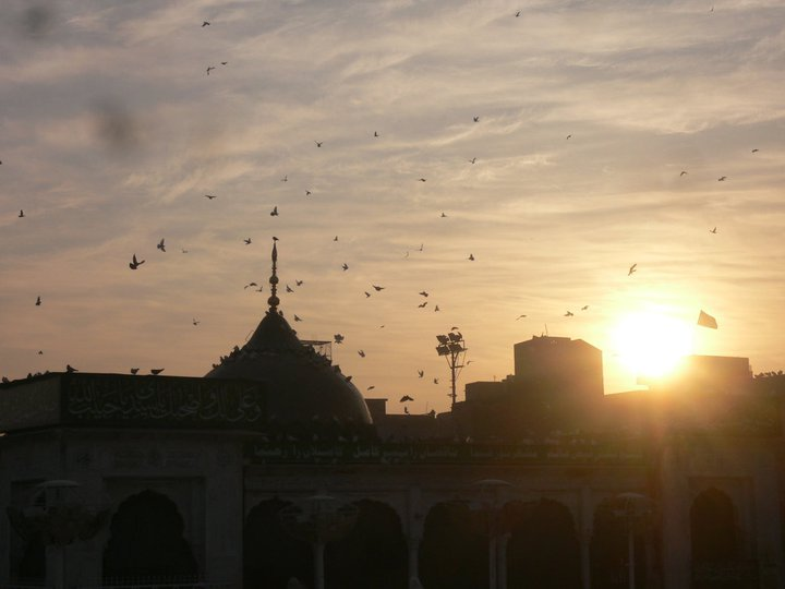 Sunset over Data Durbar